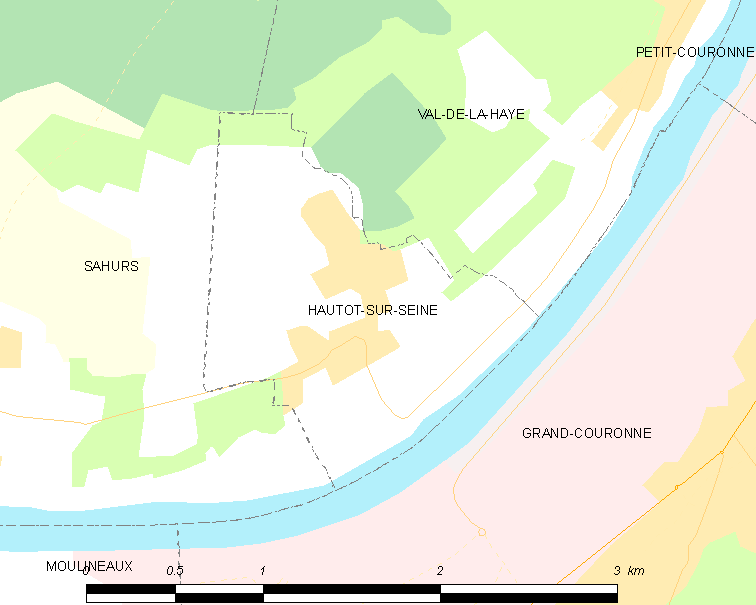 Map of French municipality Hautot-sur-Seine